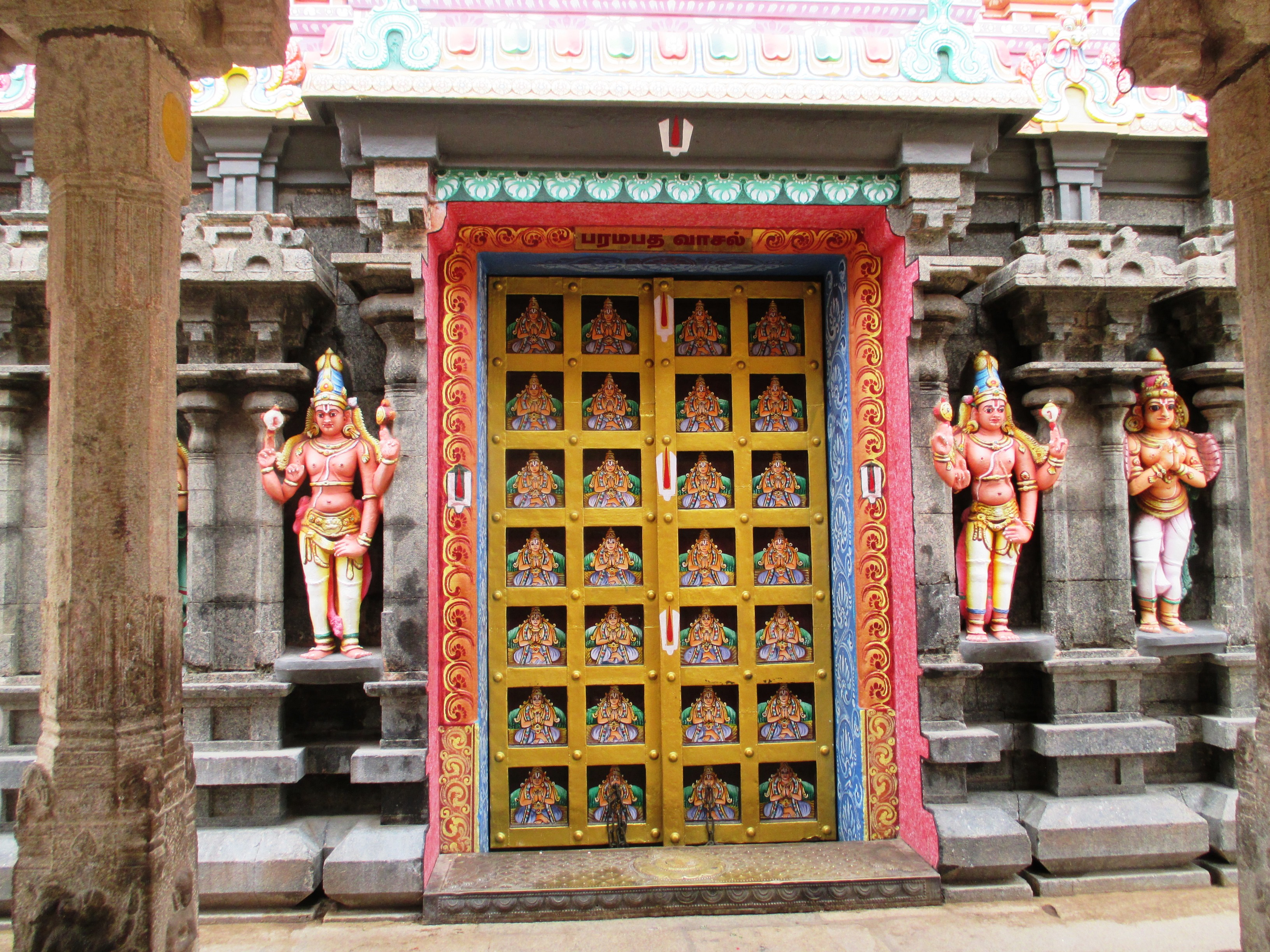 Sri Ranganathaswamy Temple (Srirangam)